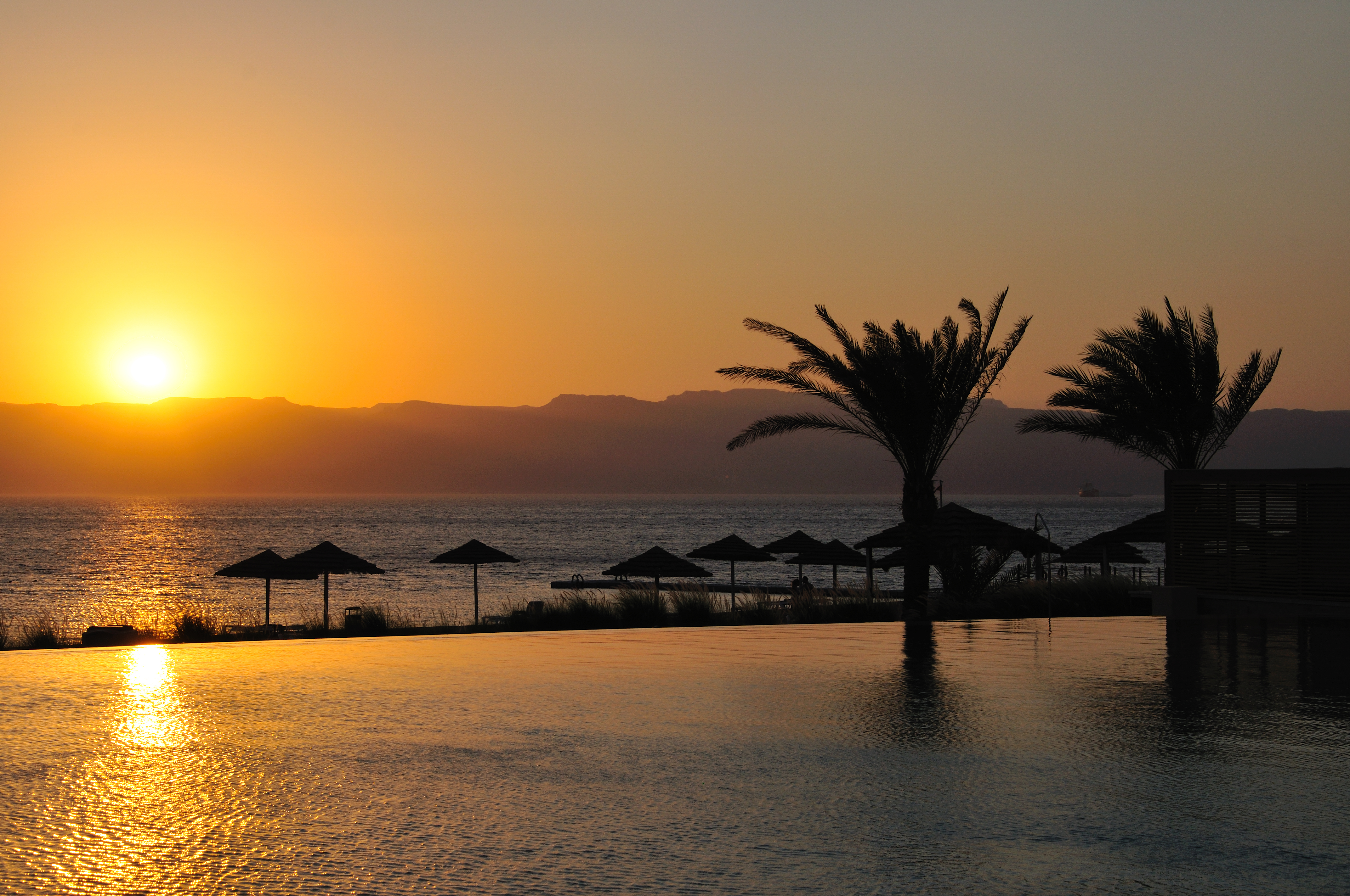 A beautiful sunset seen from swimming pool at Radisson Blu in Tala Bay, Aqaba Jordan. An interesting area in Jordan 10 km from Saudi Arabia border, but also close to the Border to Eilat, Israel...and the mountains over red sea below the sun is actually in Egypt.